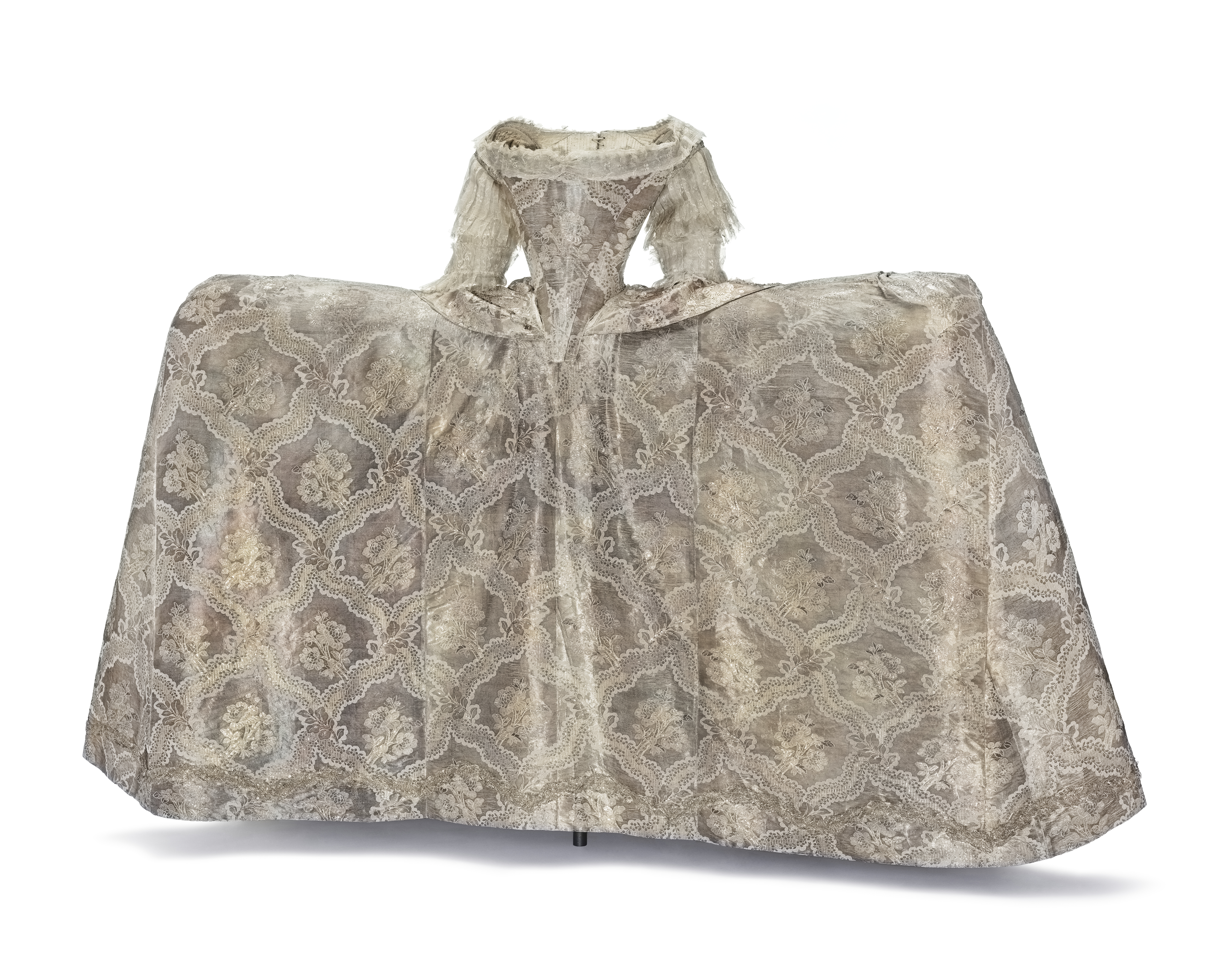 Sofia Magdalenas wedding dress, robe de cour. Panier